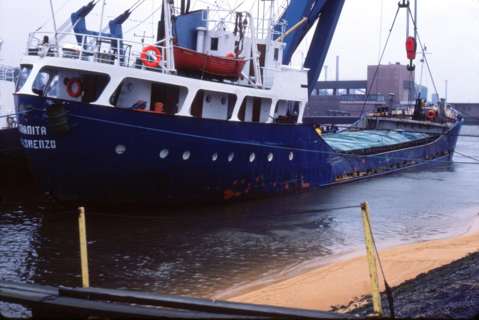 the Johanita from San Lorenzo the ship load of grain is pumped over board after hull damage 1985 this ship used to be the THEKLA